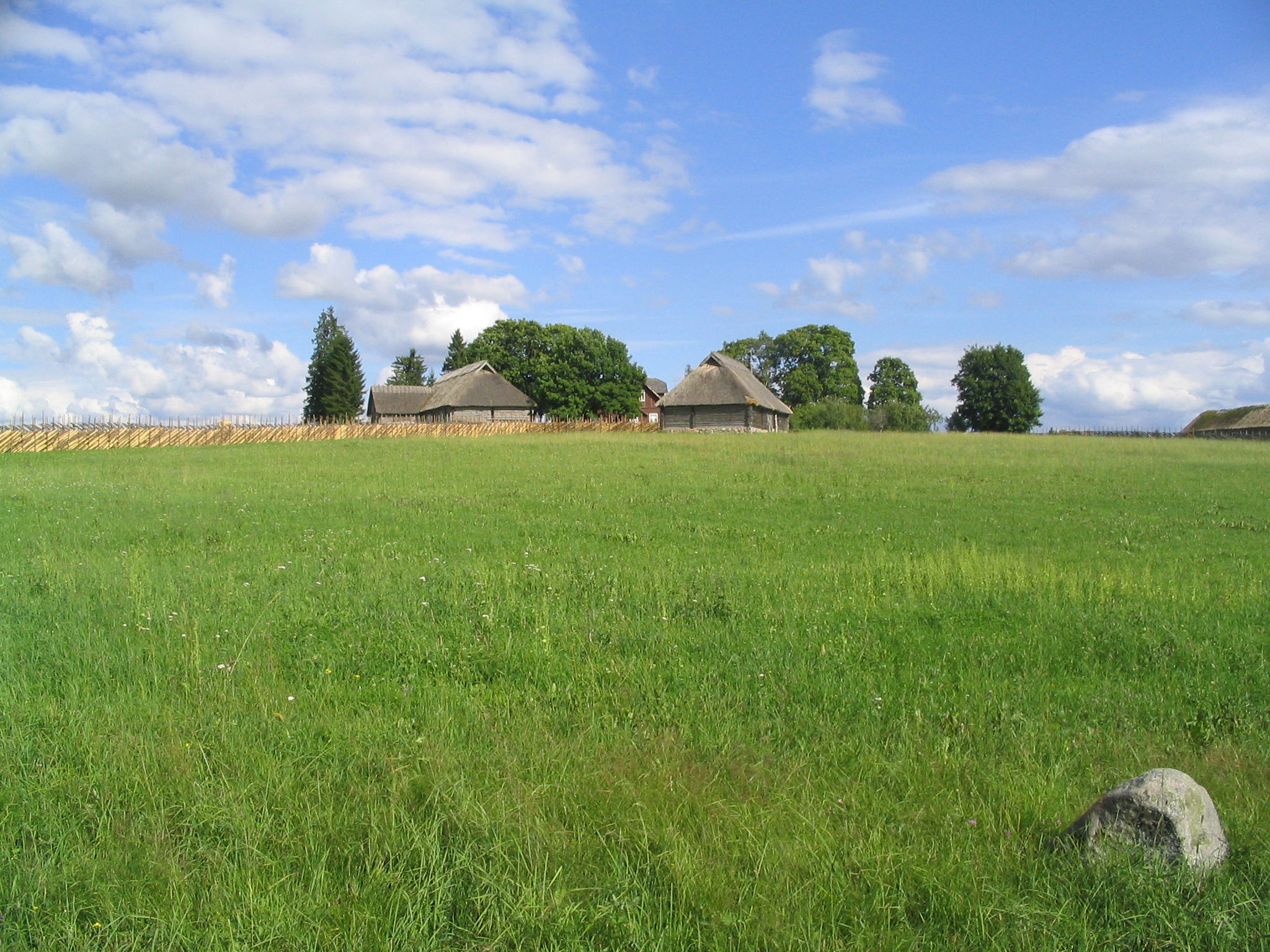 Tammsaare-Põhja farm, birthplace of Estonian writer A.H. Tammsaare. The view is also featured on the Estonian 25 krooni banknote.